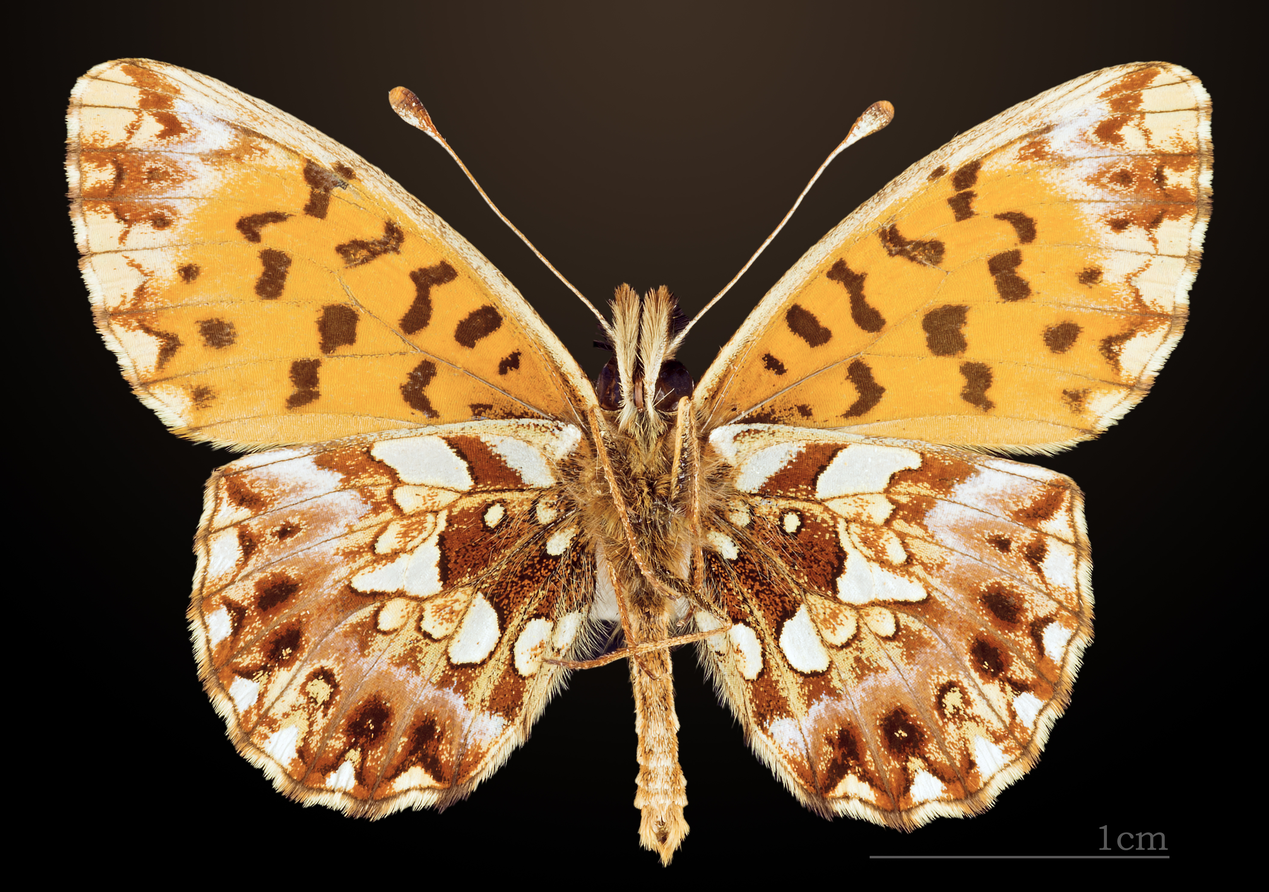 Violet Fritillary - △ Ventral side Locality: Lalbenque, Lot, France.